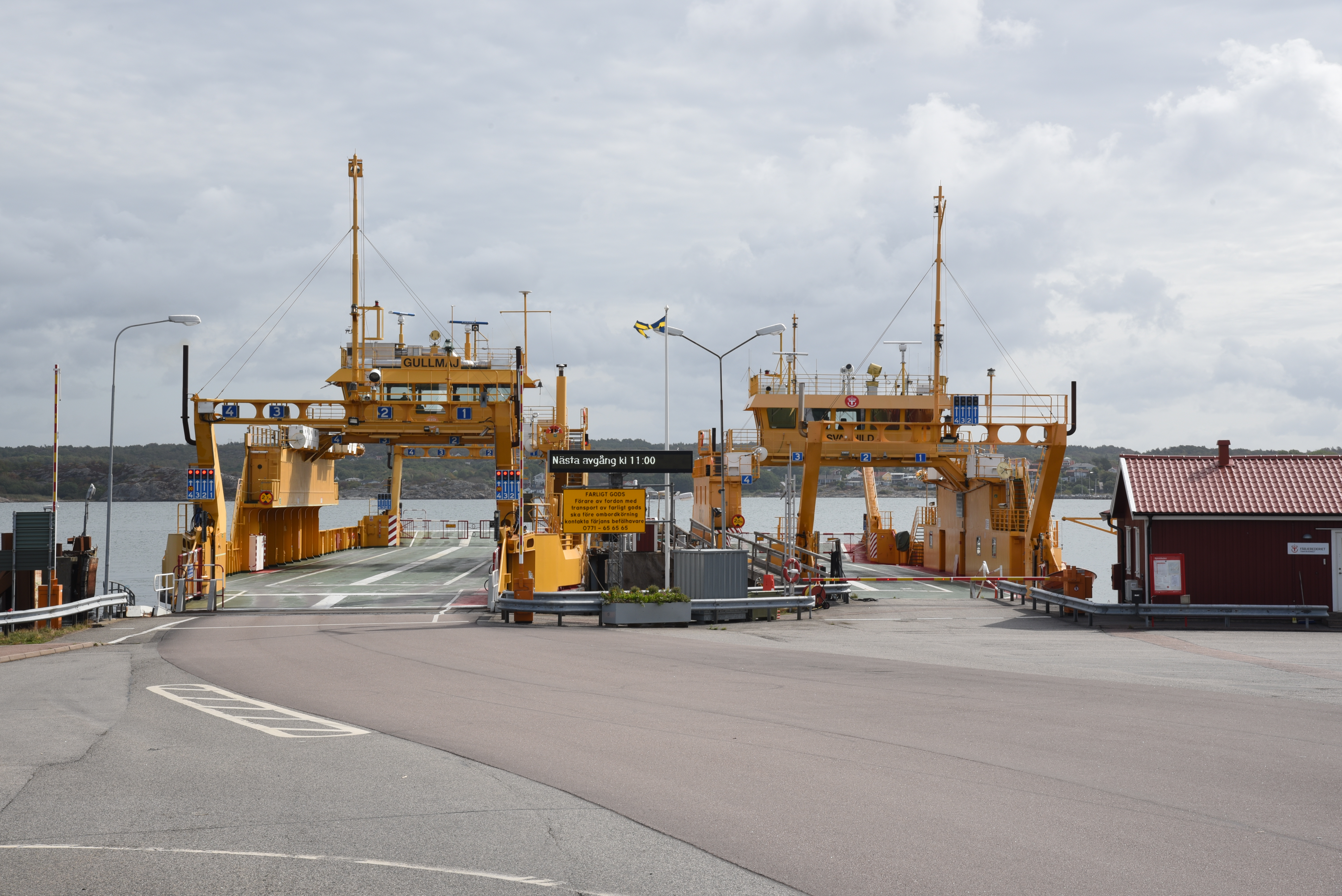 The ferries Gullmaj and Svanhild on Björköleden in Öckerö Municipality.